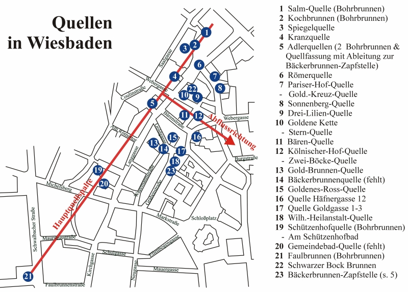 Fountains, graphic of the system of fountains in Wiesbaden - downtown, Germany